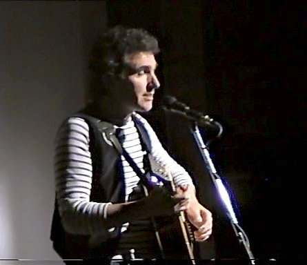 Jez Lowe, UK folk singer-songwriter on stage in Hobart, Australia, April 1997 (Tony Rees photograph)